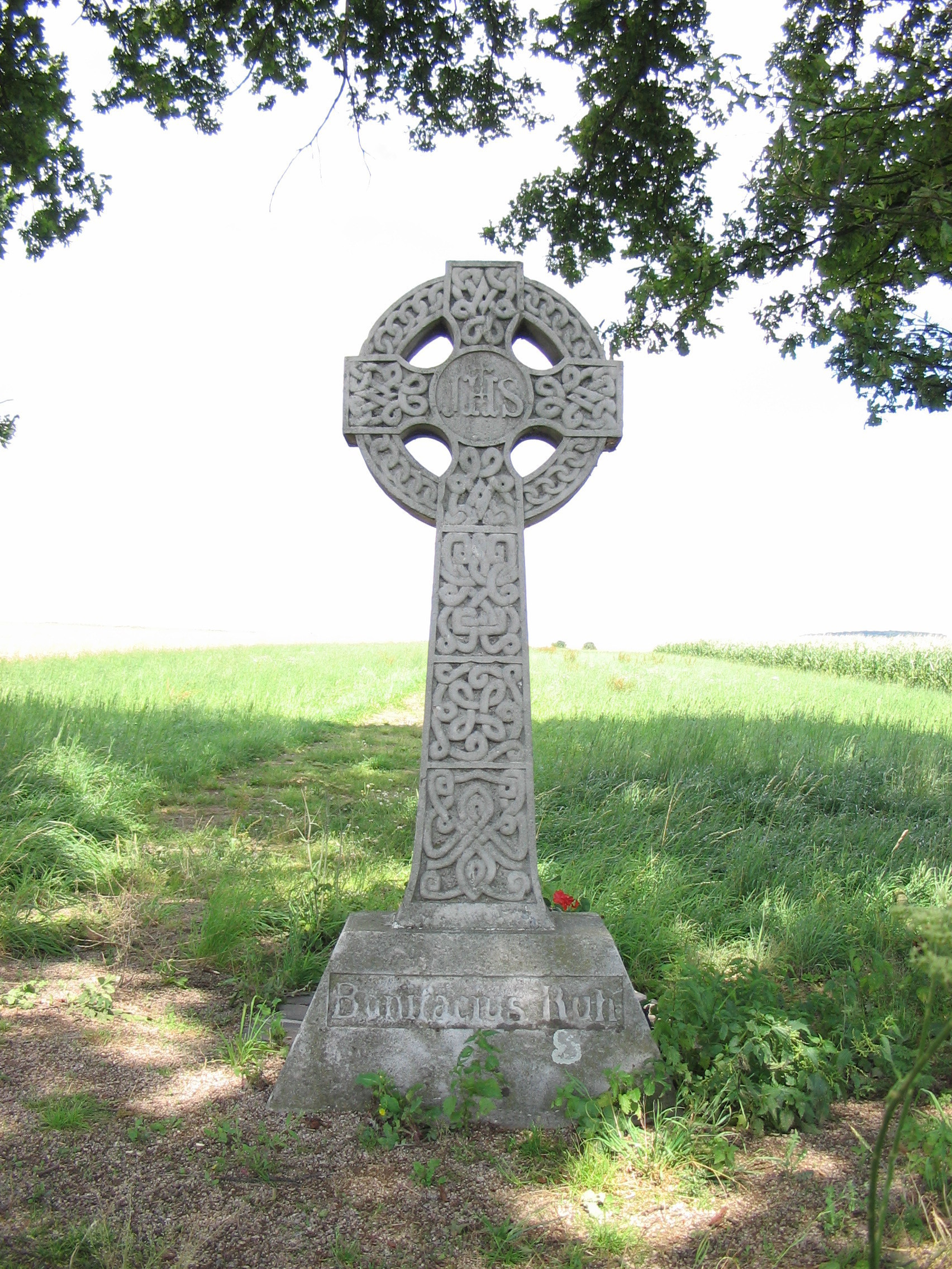 cross in honor of Boniface